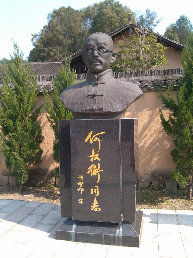 The He Shuheng Statue, is a statue in He Shuheng's Former Residence, Ningxiang County, Changsha city, Hunan province, China.中文（中国大陆）: 何叔衡雕塑，位于中华人民共和国湖南省长沙市宁乡县的何叔衡故居。